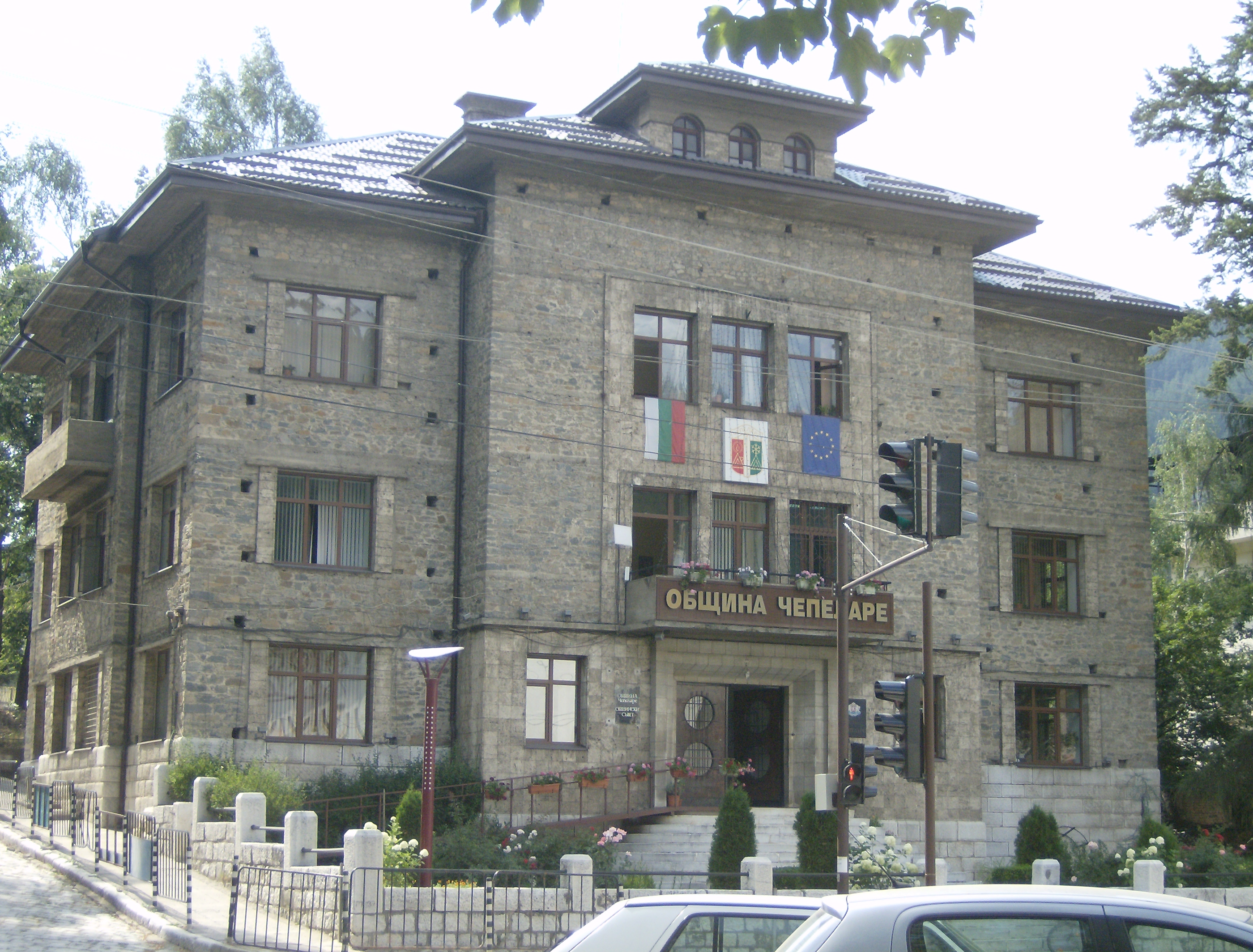 Chepelare Municipality